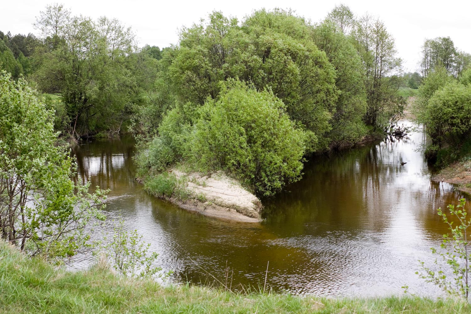 River Uzola.